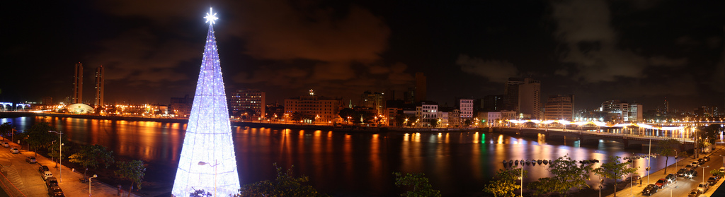 Capibaribe River in Recife, Brazil.